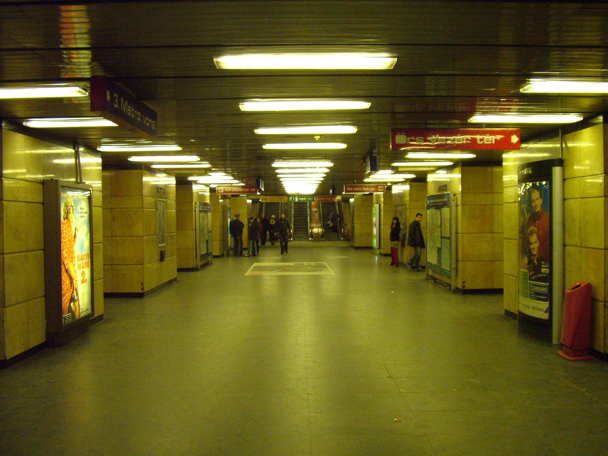 Deák Ferenc tér, Budapest metro 2